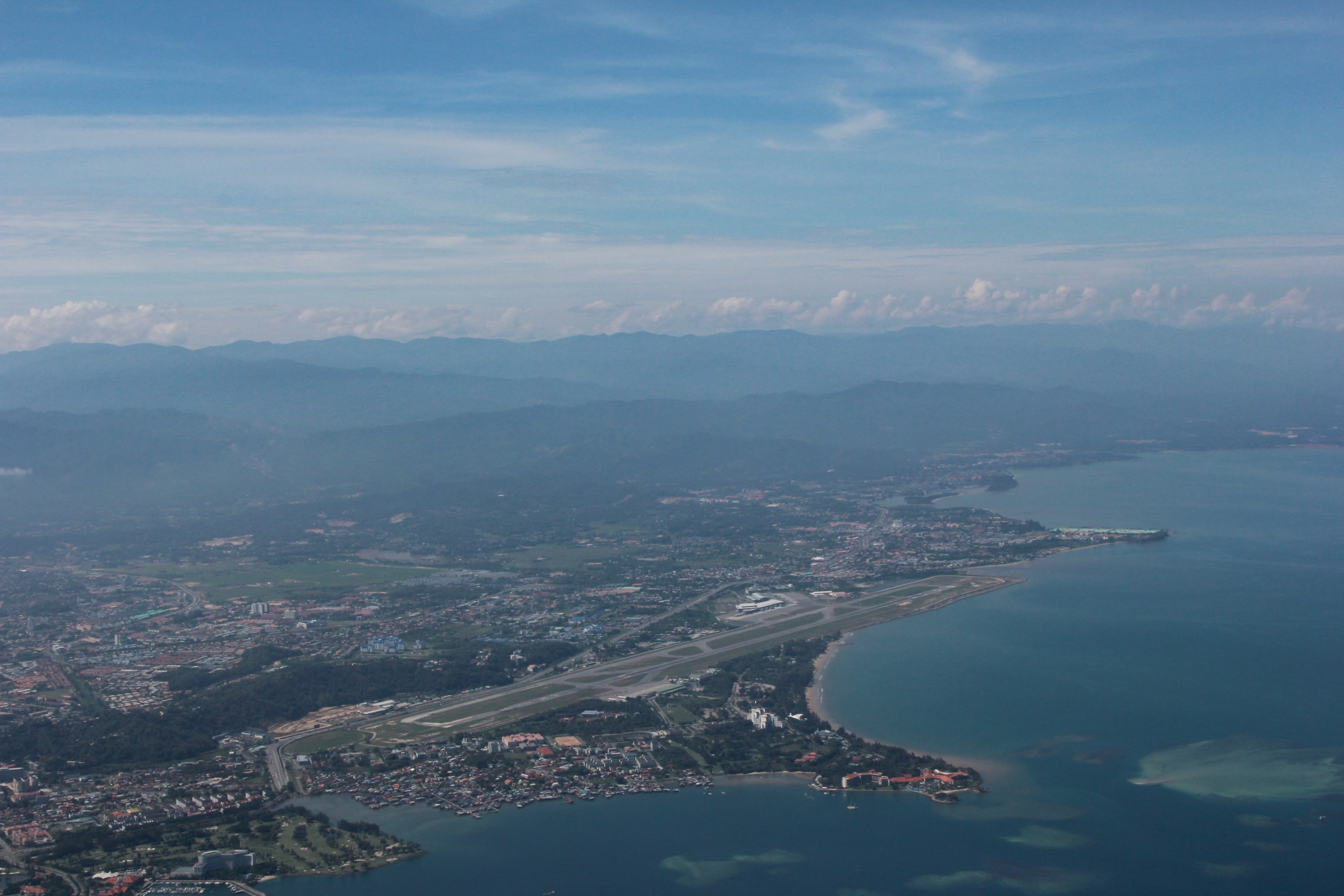 Aerial view of Kota Kinabalu International Airport,taken from flight AK5111 from Kota Kinabalu to Kuala Lumper中文（中国大陆）: 亚庇机场鸟瞰图，摄于由亚庇前往吉隆坡的亚洲航空AK5111次航班